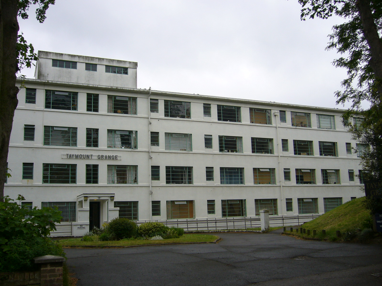 Taymount Grange at grid reference TQ349728 at the top of Taymount Rise, Forest Hill, Lewisham.